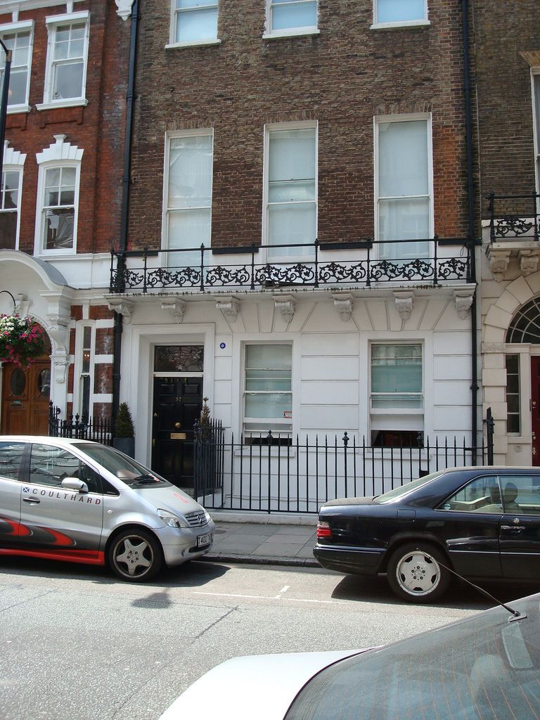 57 Wimpole street, Paul McCartney lived here together with the Asher family. The site is frequently visited by 'Beatles walks', guided tours around London showing locations made famous by the Beatles. For an in-depth article with a map